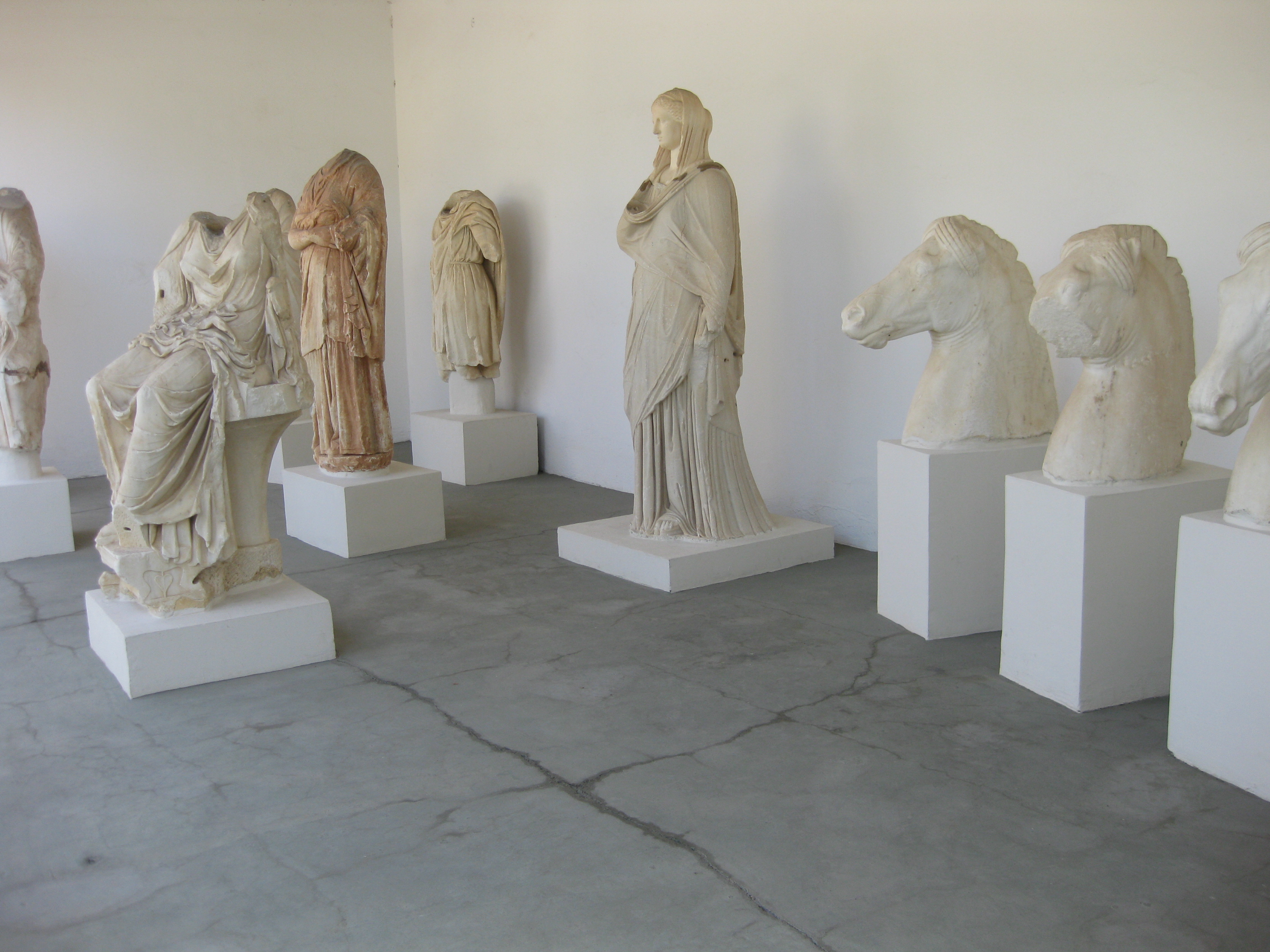 Archaeological Museum in Chalkida